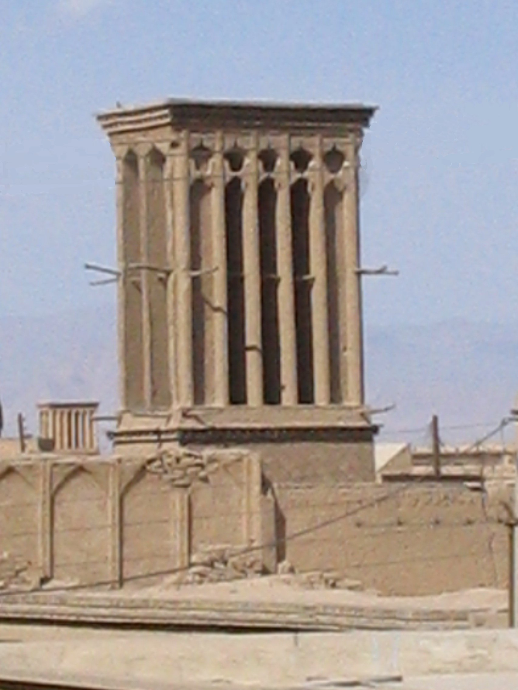 A badgir (windcatcher) in Yazd, Iran.